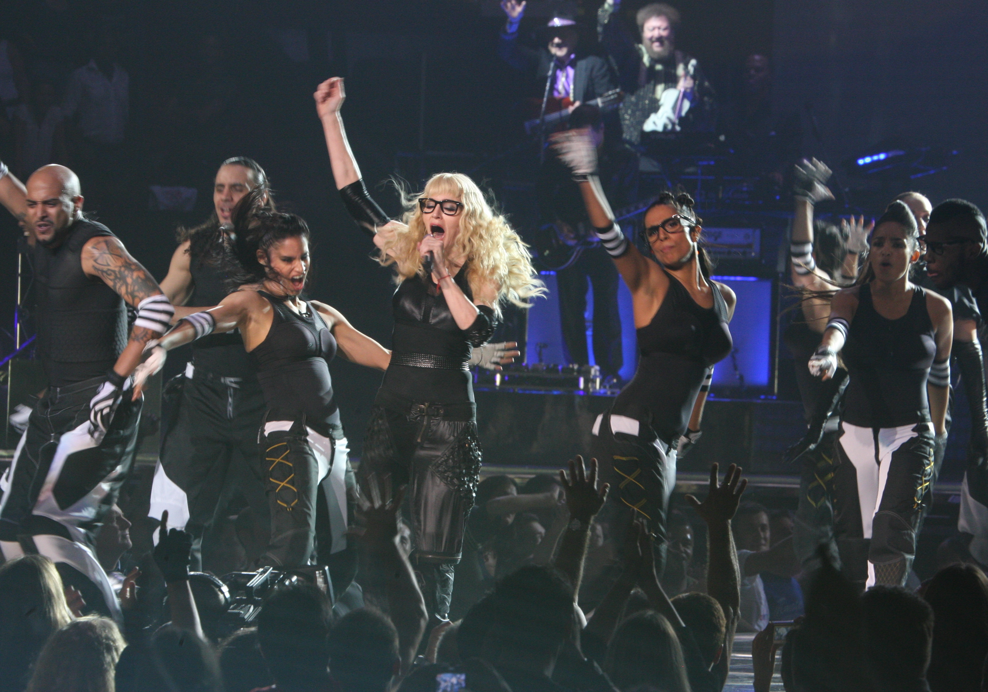 Give It 2 Me Sticky & Sweet Tour 2008